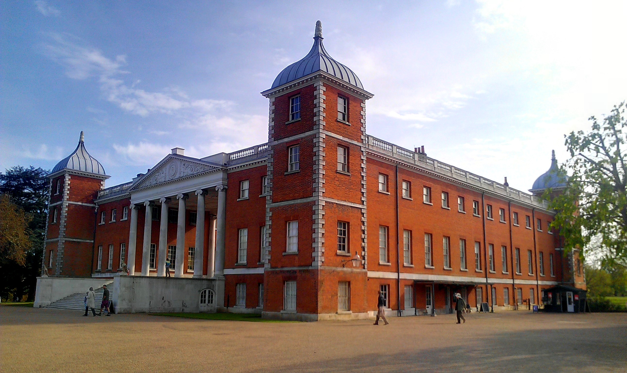 The main mansion at Osterley Park in the London Borough of Hounslow.